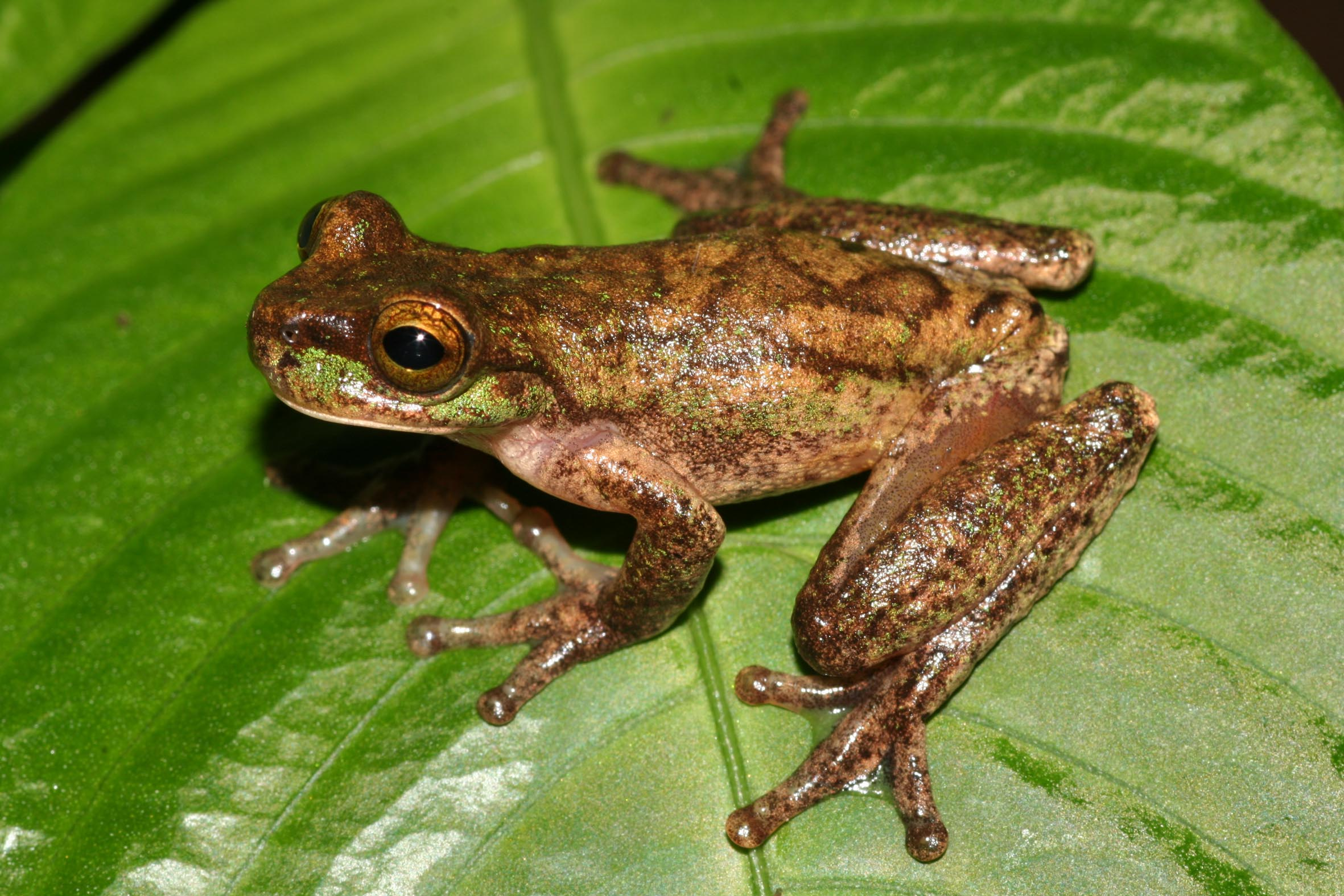 Photograph of Isthmohyla rivularis by Andrew Gray. Photograph taken at Monteverde, Costa Rica, 2007.